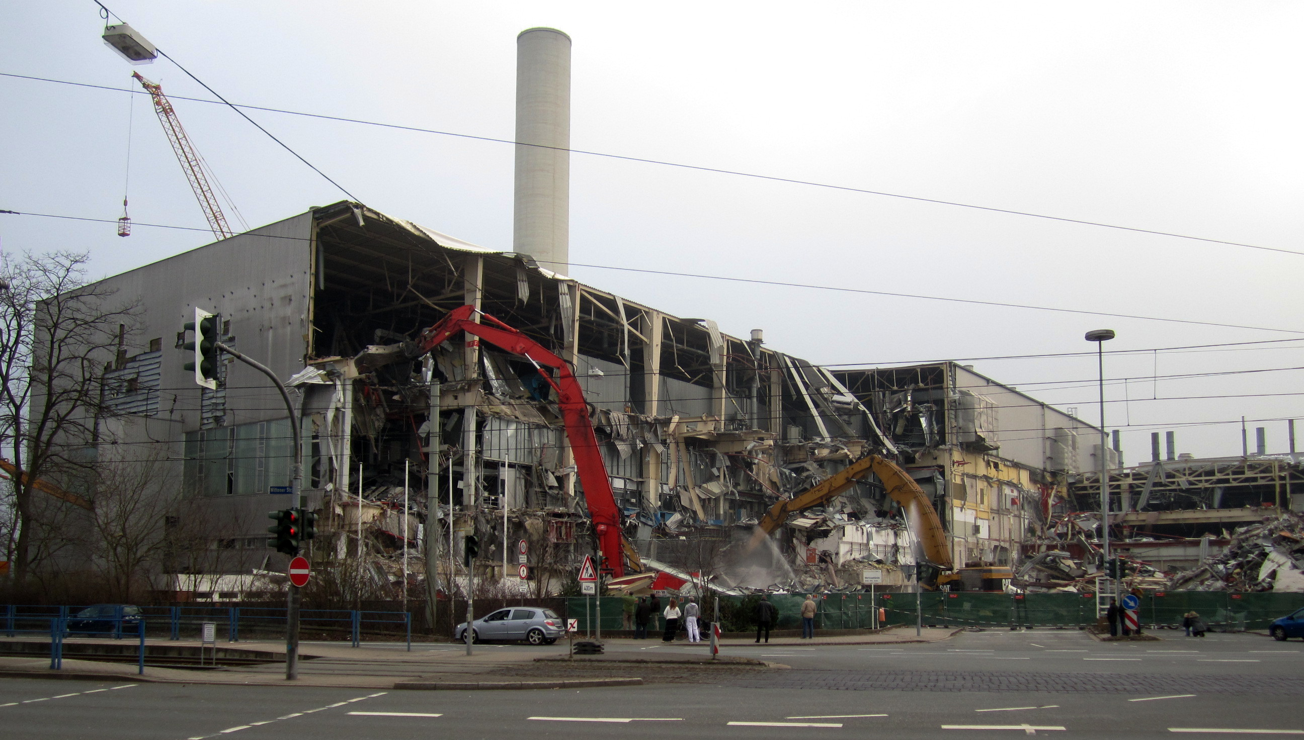 Demolition of the Opel Works in Bochum, Germany, End of March 2015